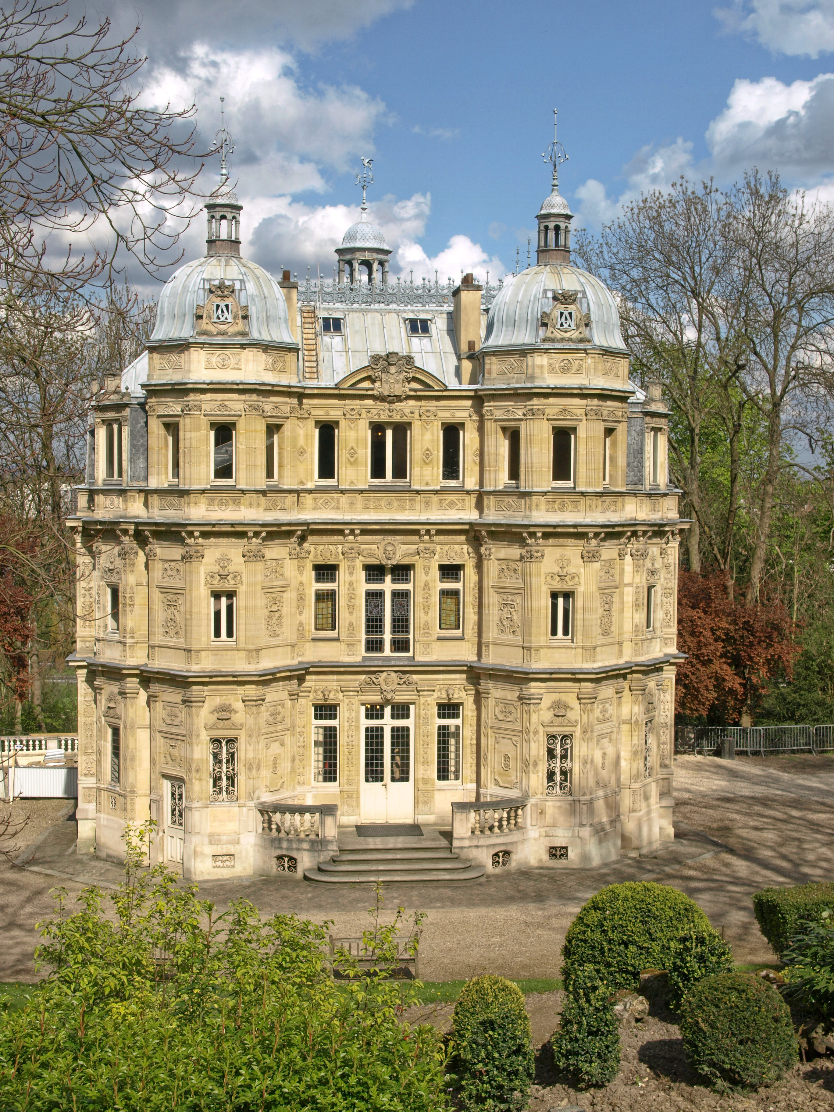 "Château de Monte-Cristo" of the famous writer Alexandre Dumas, Le Port-Marly, Yvelines, France